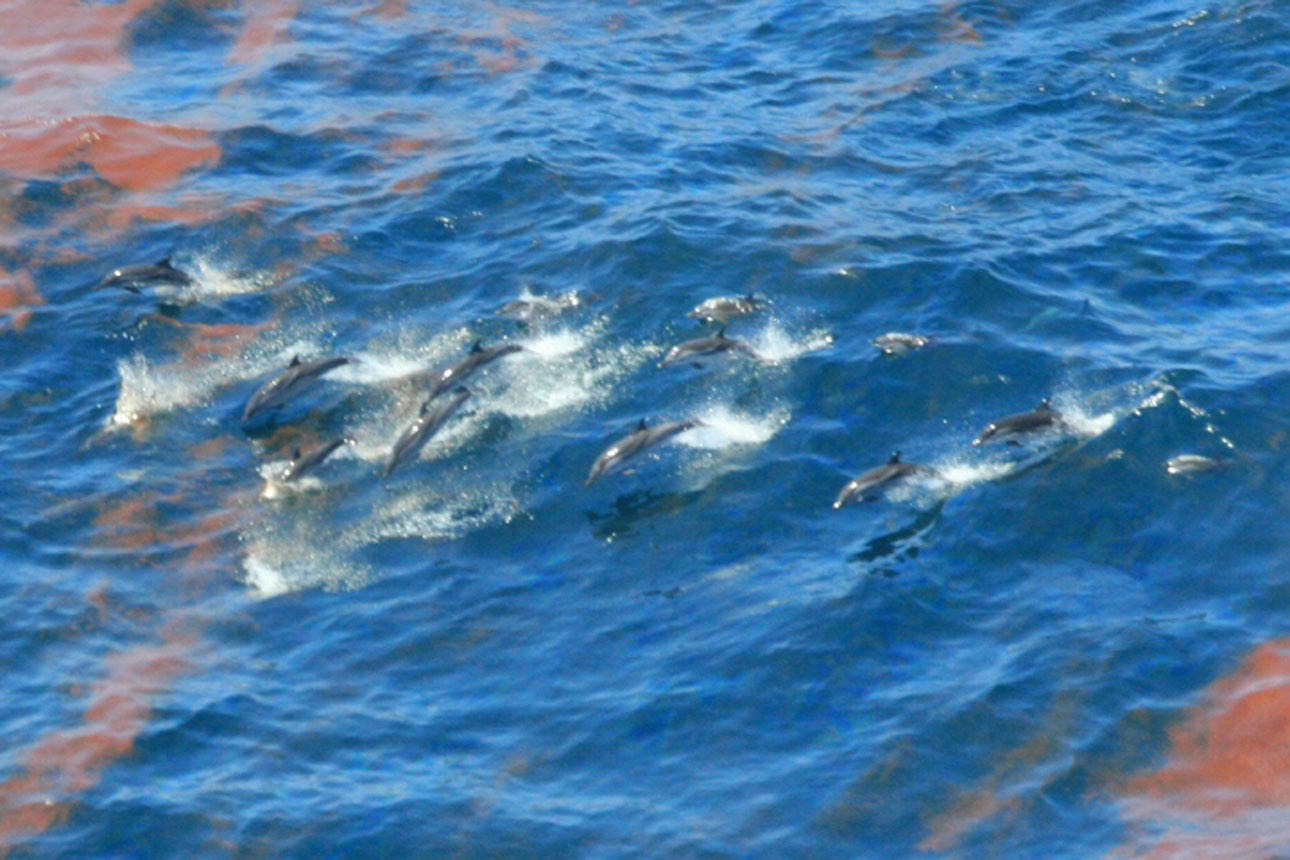 Striped dolphins (Stenella coeruleoalba) observed in emulsified oil on April 29. Credit: NOAA. during the Deepwater Horizon oil spill (Original source: Deepwater Horizon Incident Image Gallery )